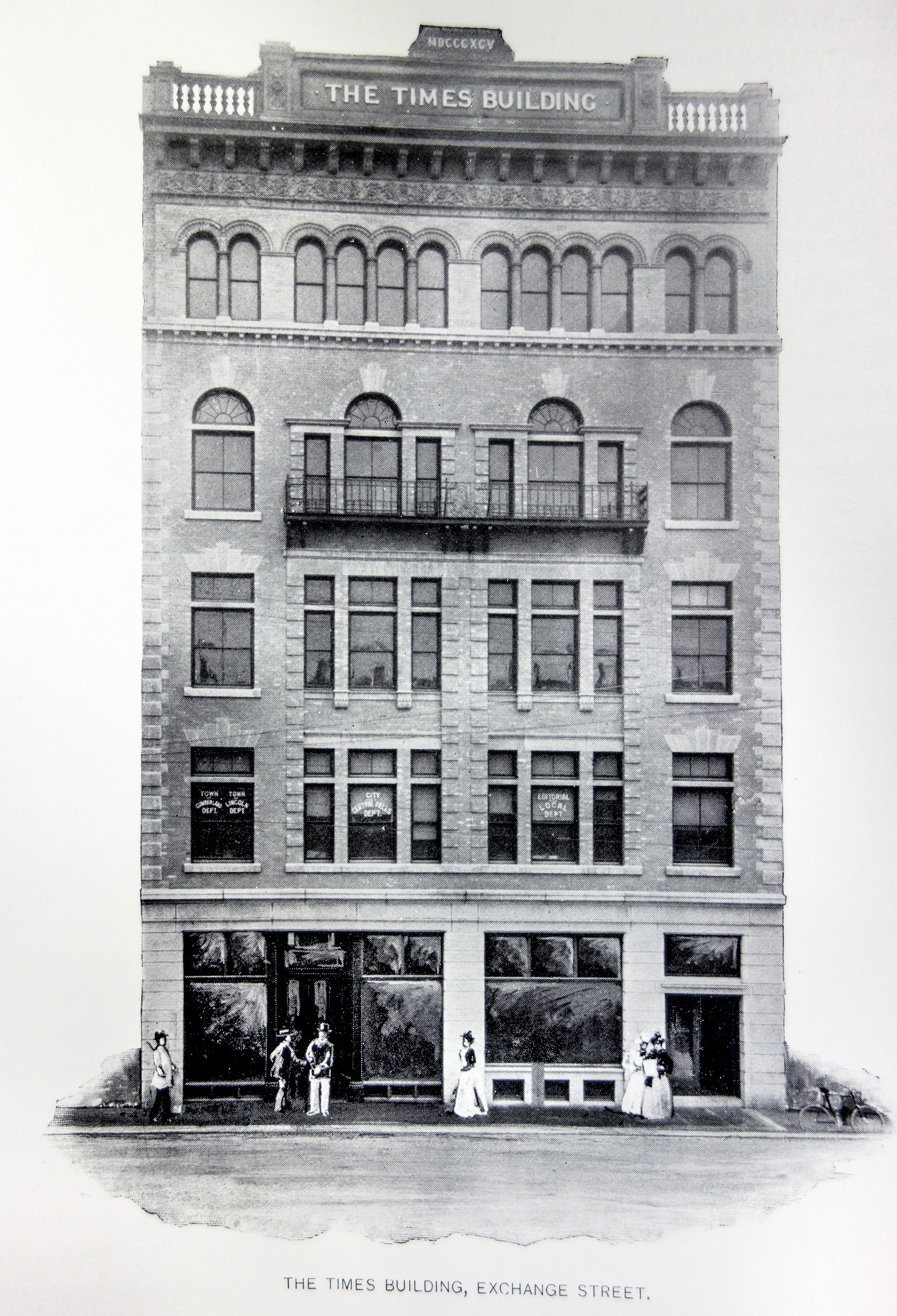 The Times Building, Exchange Street, Pawtucket, RI. Halftoned image. Source: An Illustrated History of Pawtucket, Central Falls, and Vicinity by Robert Grieve (1897).